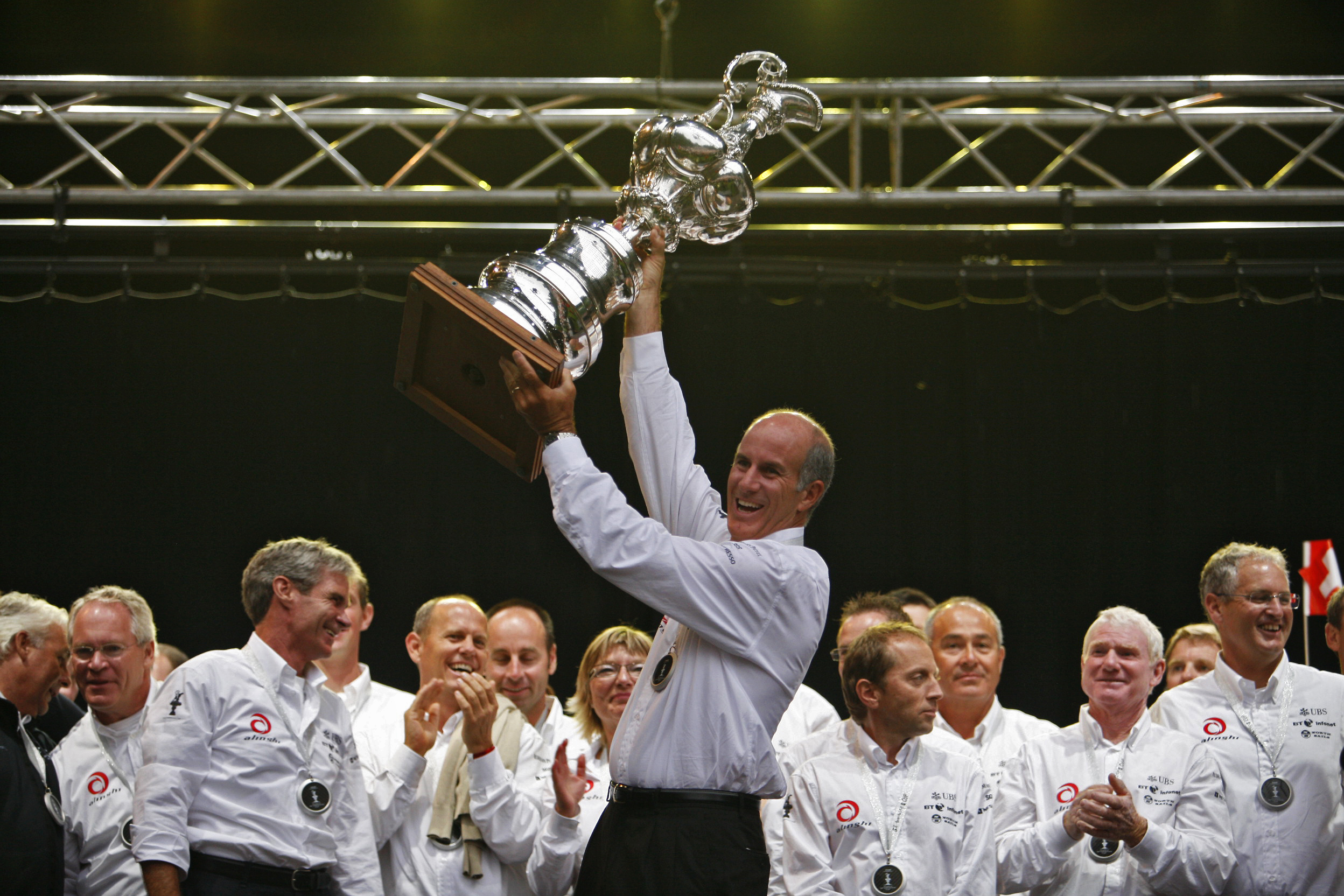 Ed Baird holds the America's Cup at the Société Nautique de Genève